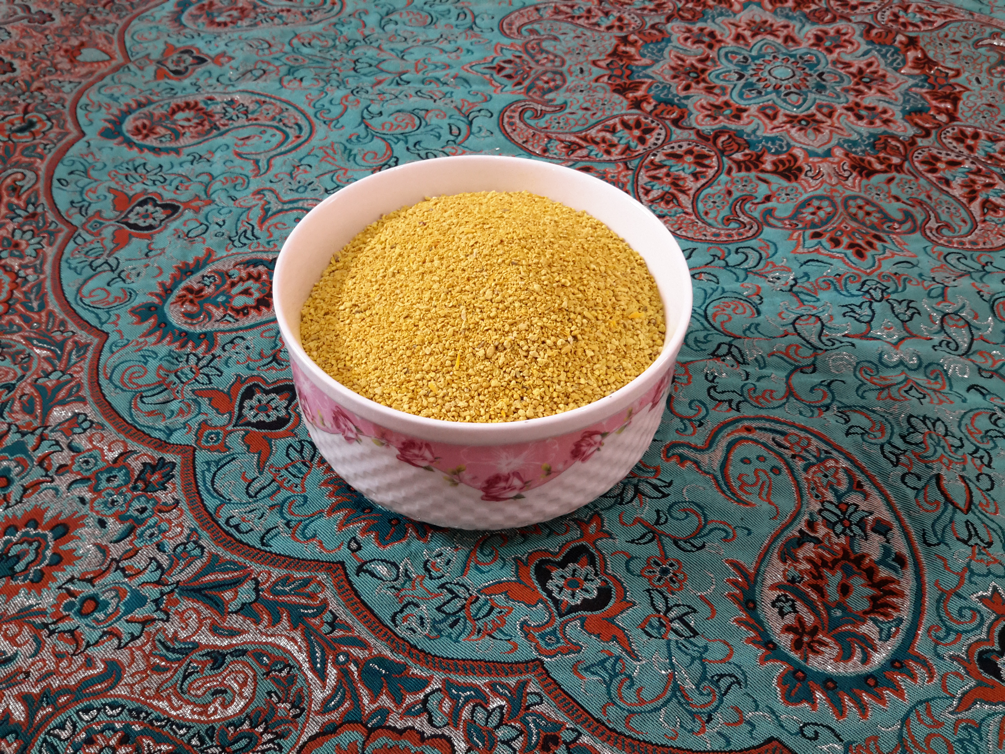 کشک زرد